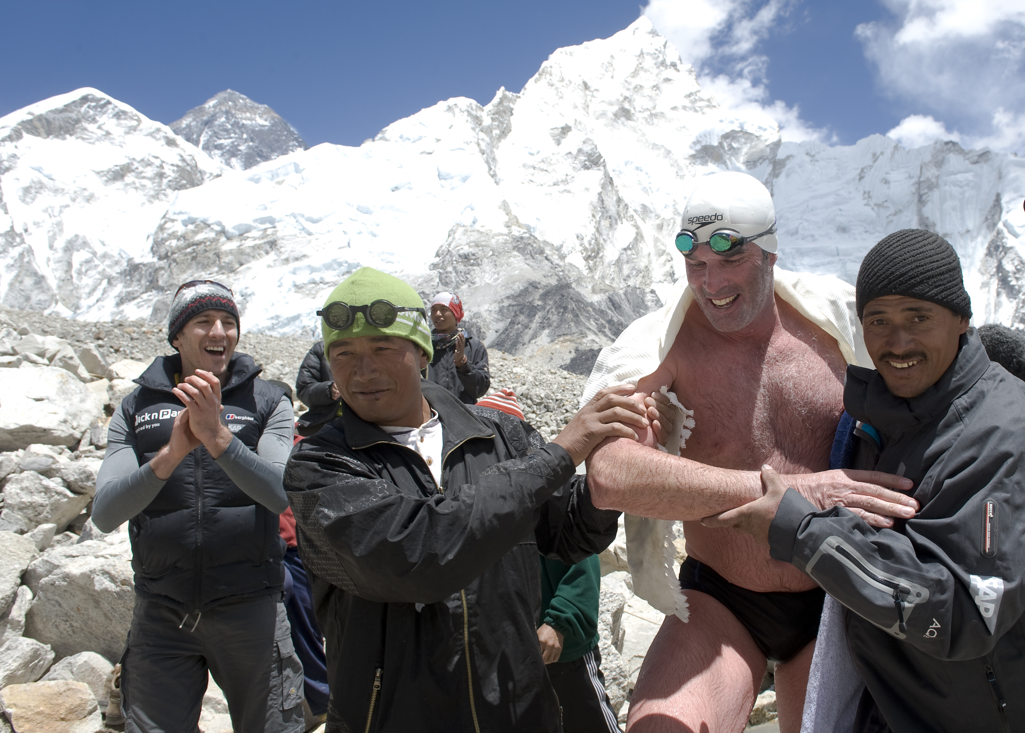 Everest support crew with Lewis Pugh after his swim